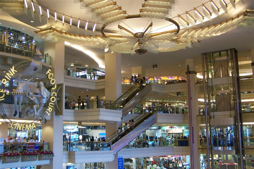 Mall Taman Anggrek, Jakarta.